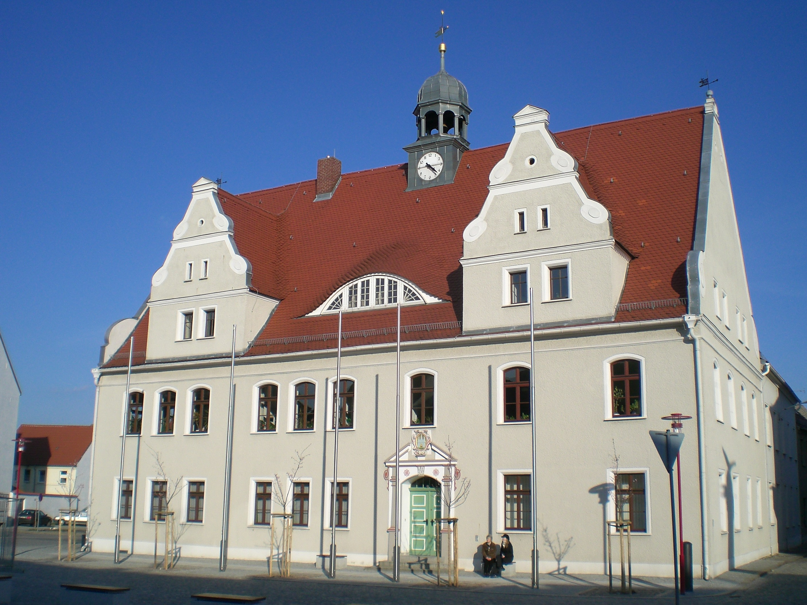 Town Hall of Doberlug-Kirchhain 2007